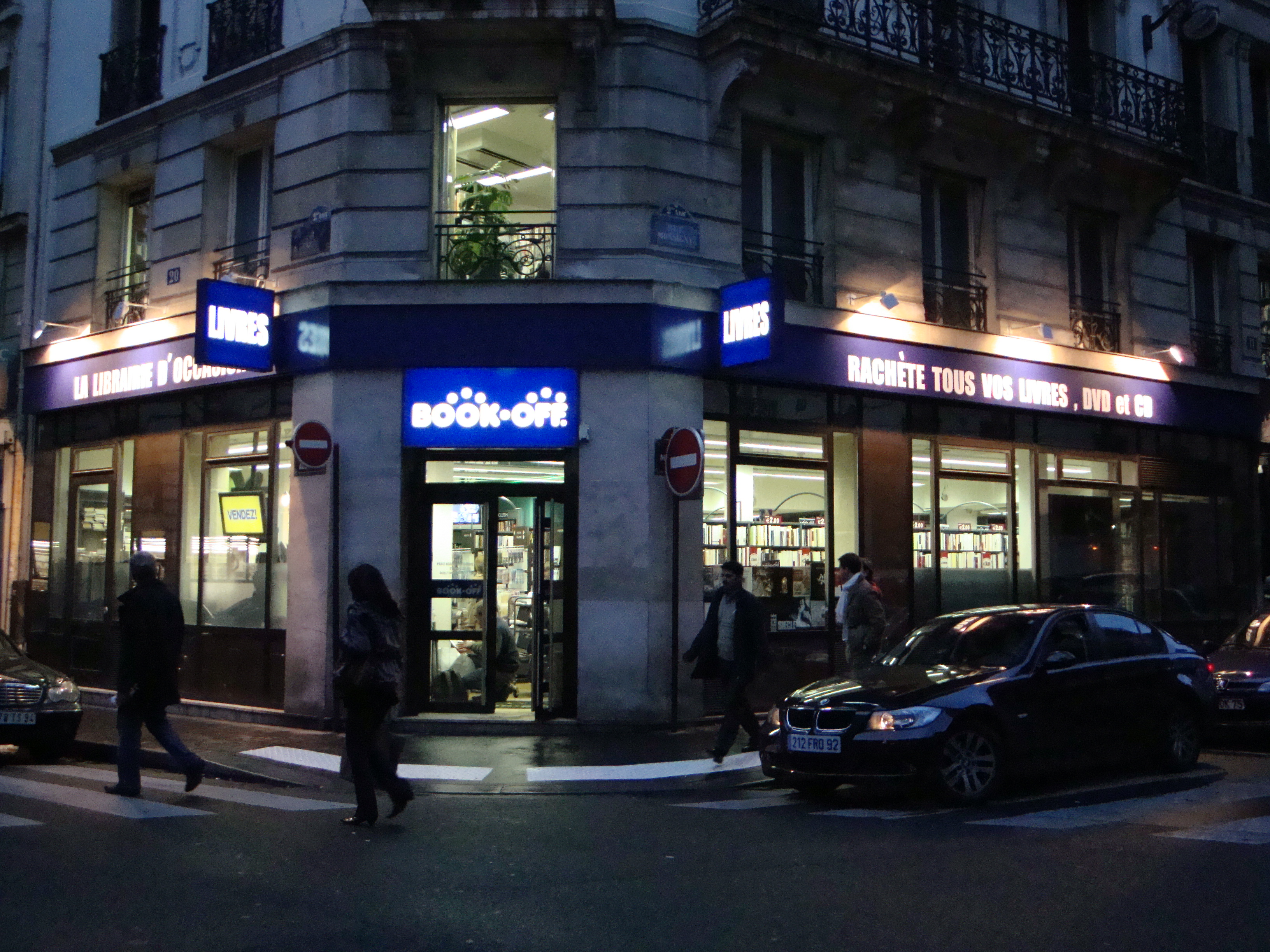 Book-Off! Quatre Septembre store at Paris, near Opéra.